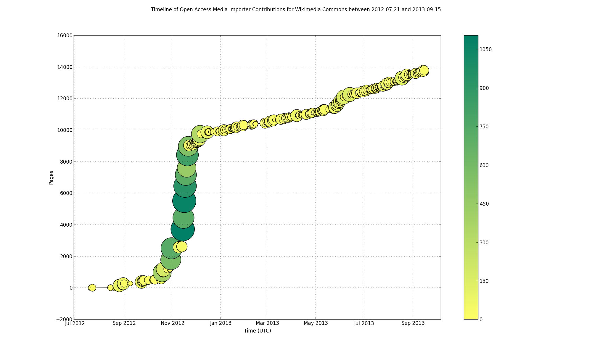 Uploads by the Open Access Media Importer to Wikimedia Commons between July 2012 and September 2013. The vertical axis indicates the cumulative number of files uploaded, the colours represent uploads per day. The maximal number of daily uploads was 1065 on November 16, 2012. The increased slope in late May/ early June 2013 is due to bug fixes.